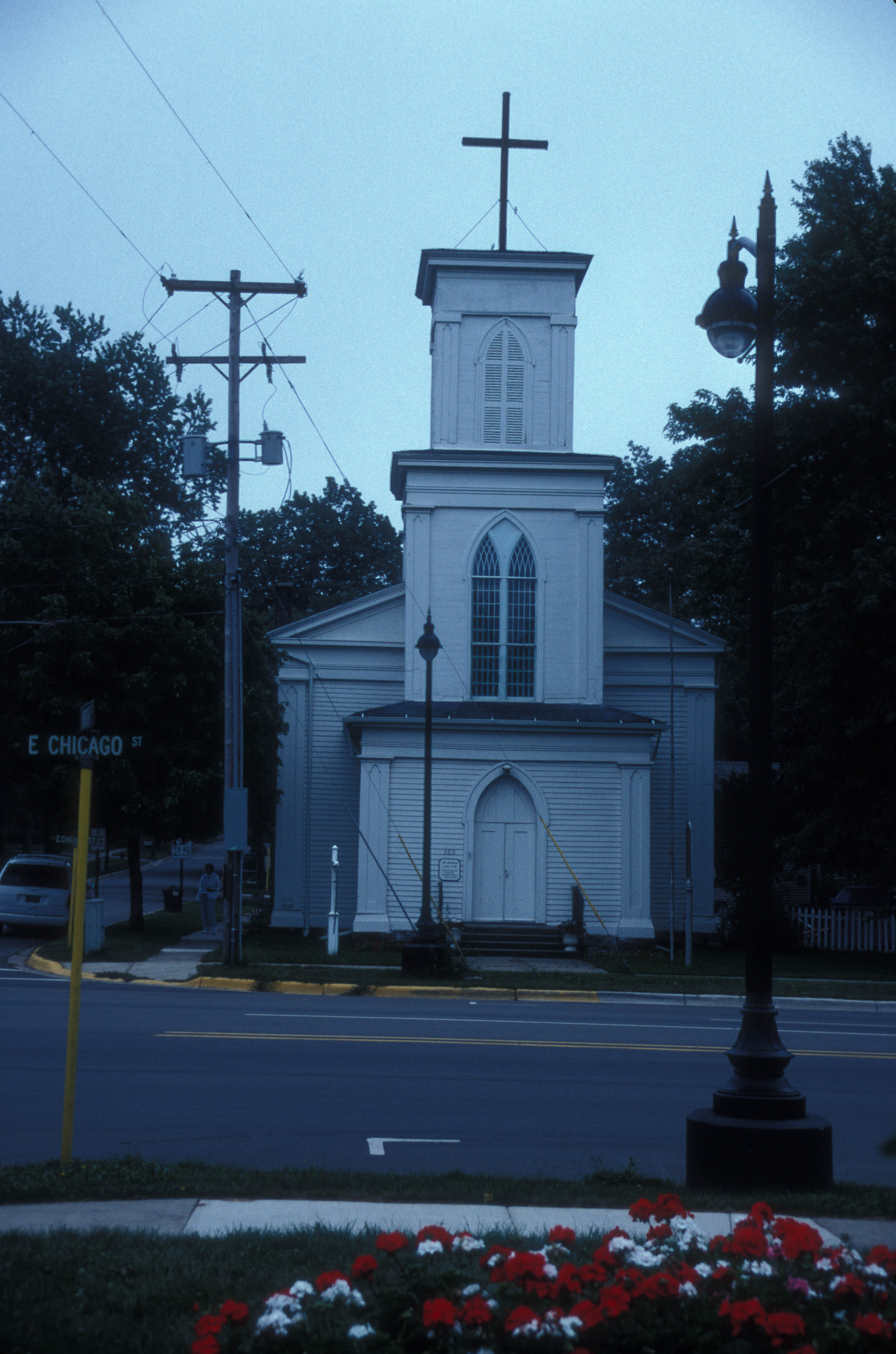 1830'S HISTORIC CHURCH WITH CLASSICAL AND GOTHIC STYLING